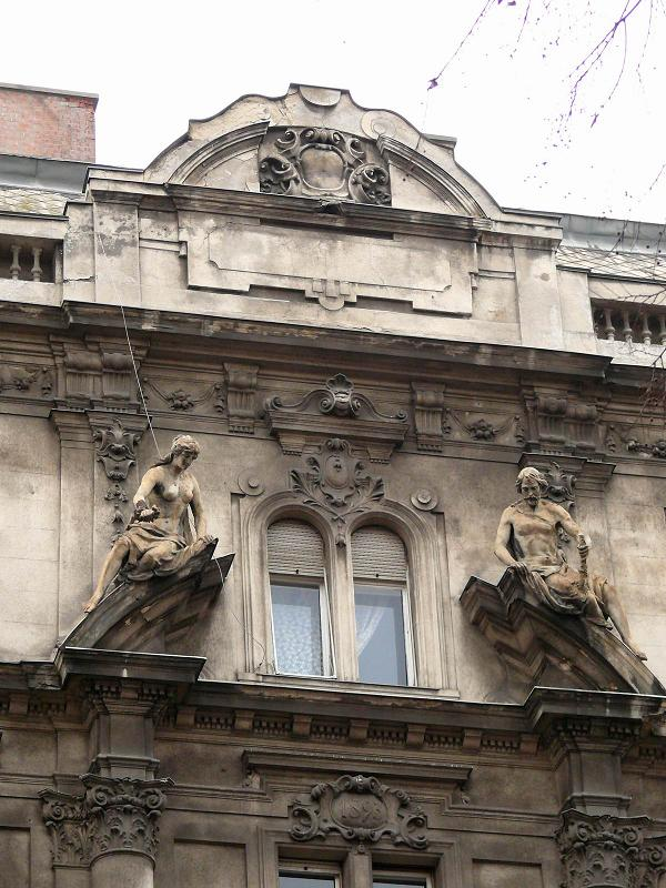 The Erzsébet Boulevard in Budapest